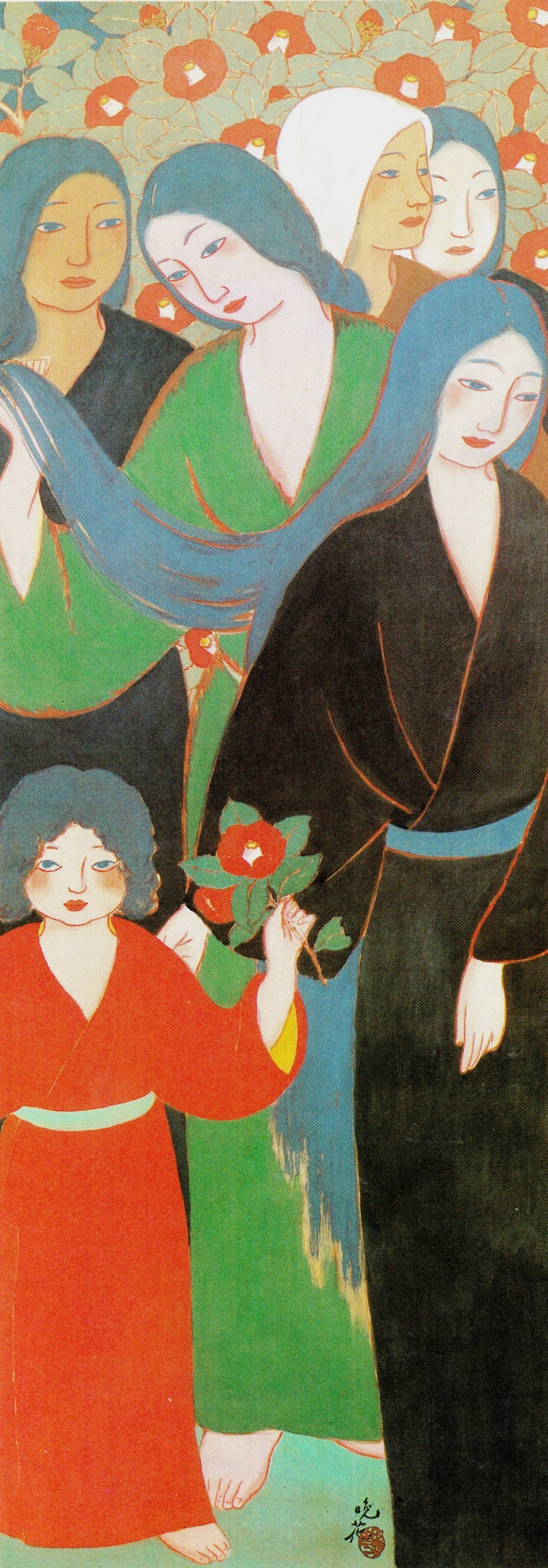 Painting by Nonagase